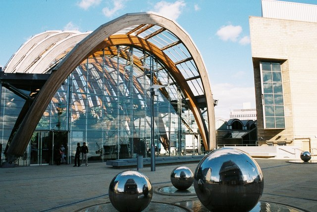 Sheffield: Winter Gardens Another new structure in the city centre.